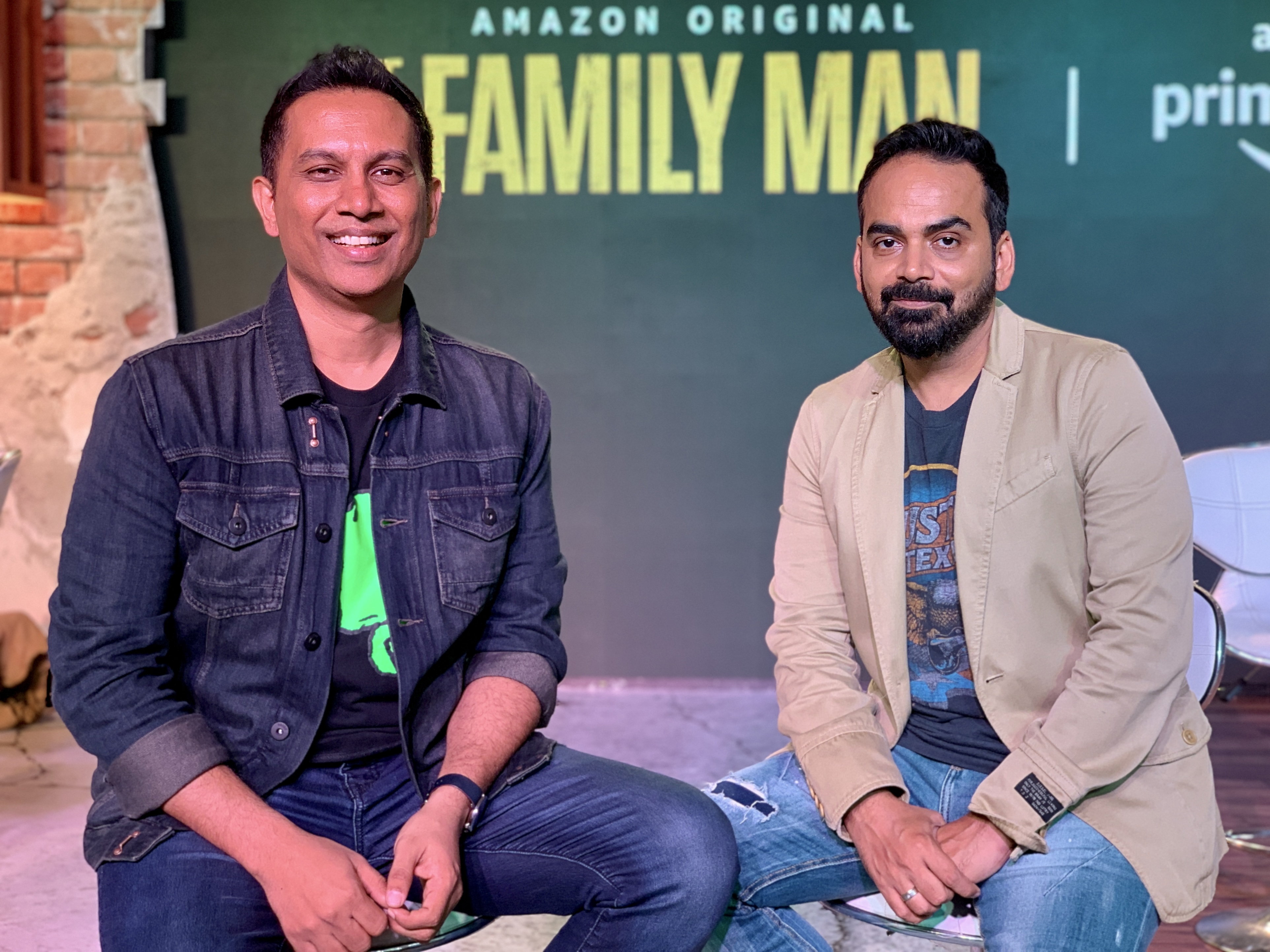 Raj & DK at a press conference for their original series The Family Man